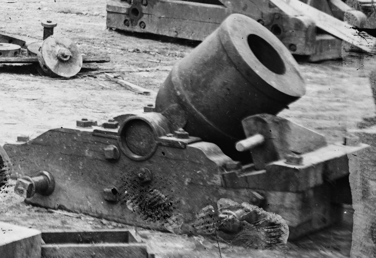 Detail of photograph of Broadway Landing, Richmond, Va., 1865, showing 8-inch siege mortar, Model 1841.